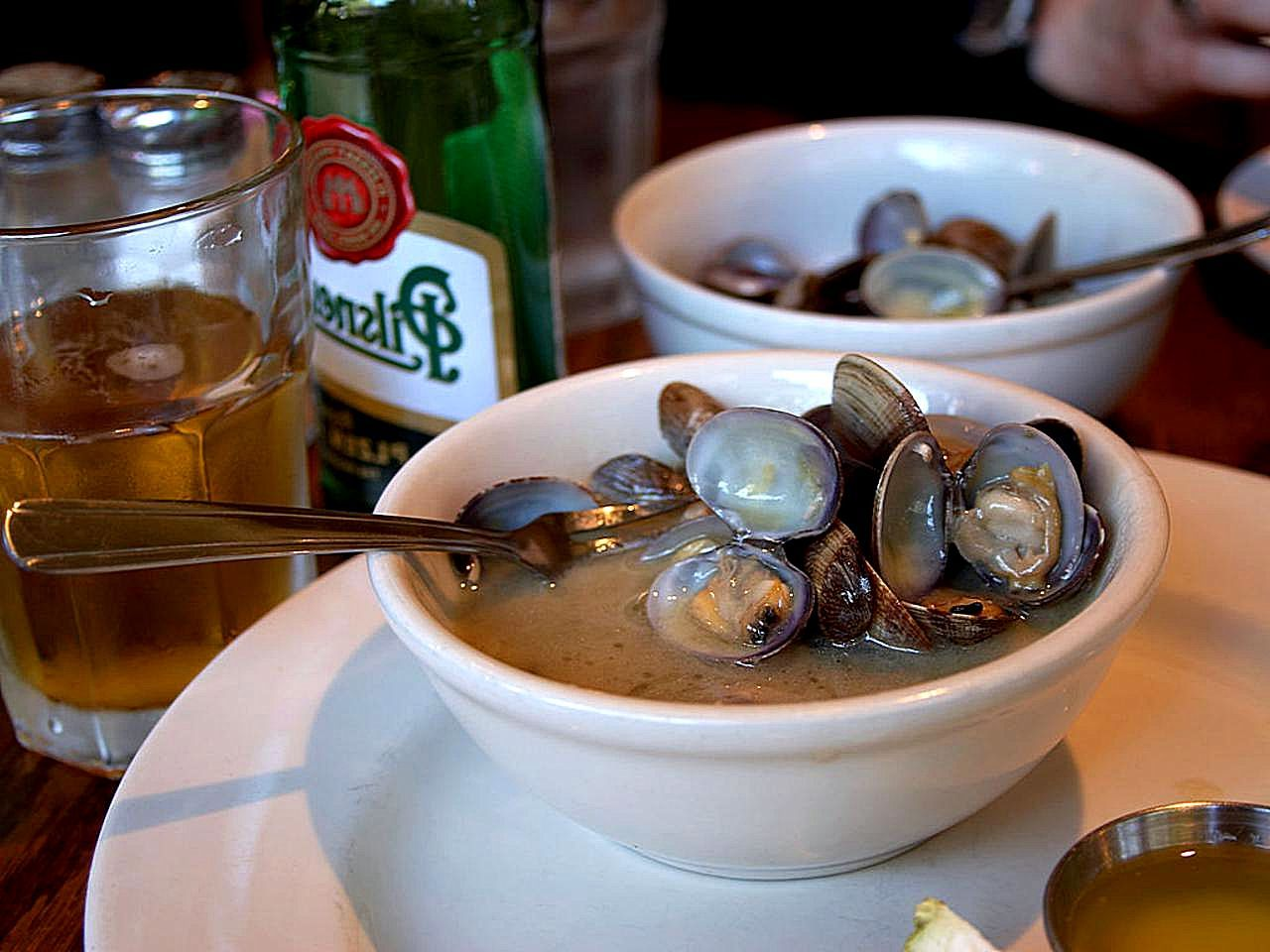 Image title: Steamed baby clams Image from Public domain images website